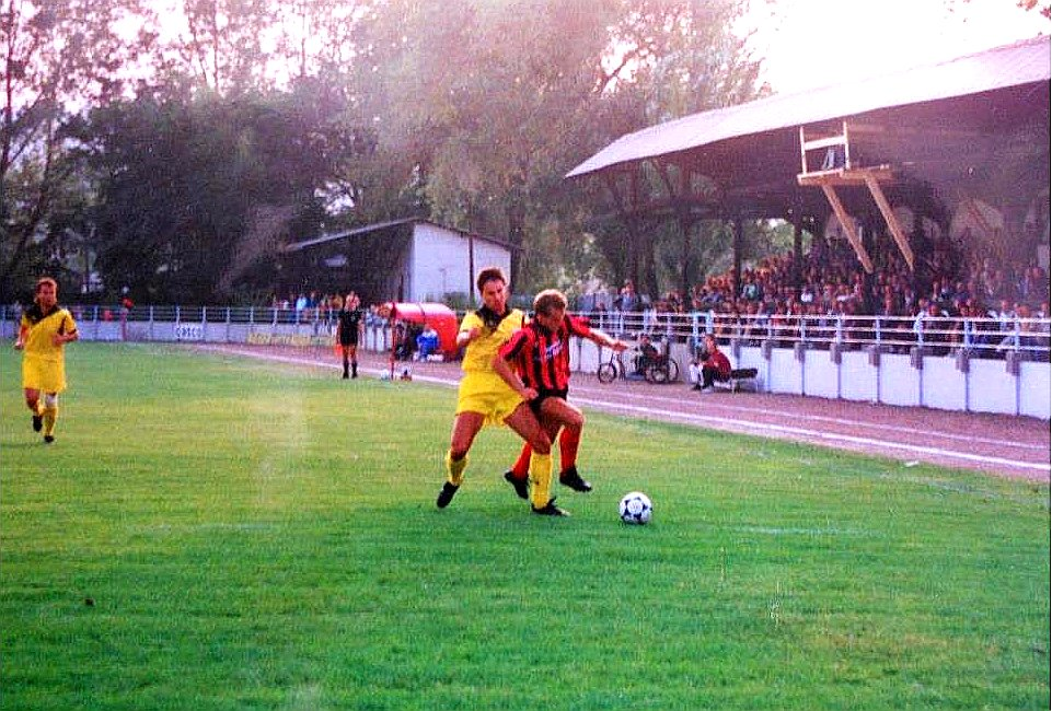 One of great victory over Volan Budapest in Dorog. The guest team played in the first division in previous year.